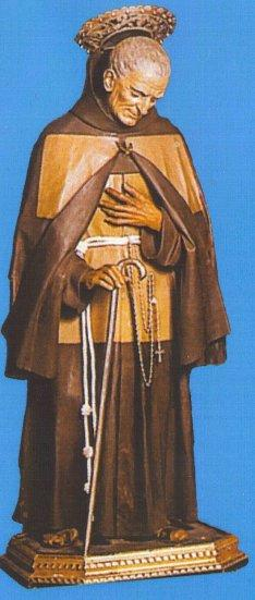 Statue of St. Egidio from Taranto (1920)opera classica in cartapesta del Maestro Salvatore Saquegna